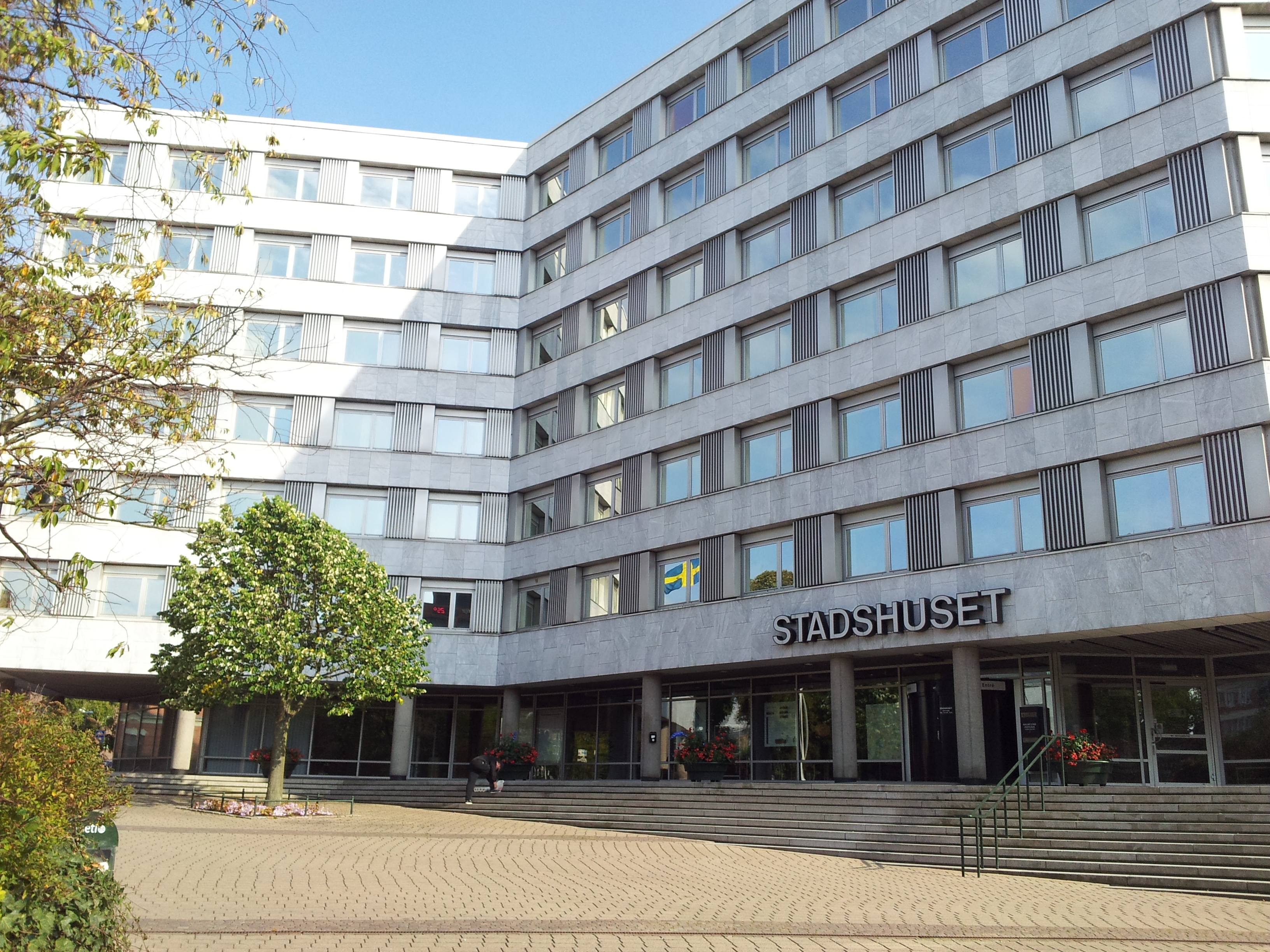 Malmö municipal building